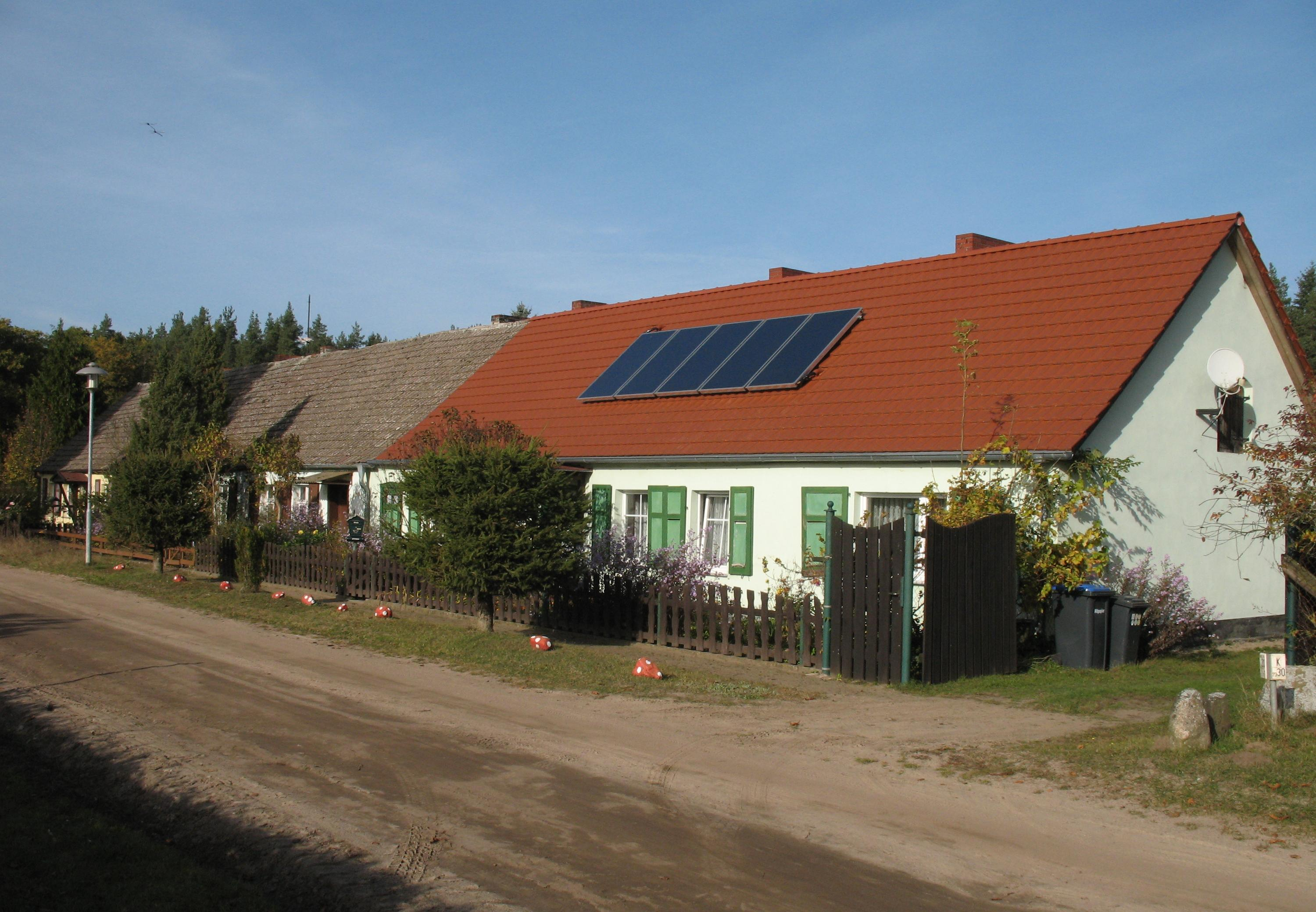 Buildings in Alt Placht (Templin-Densow) in Brandenburg, Germany